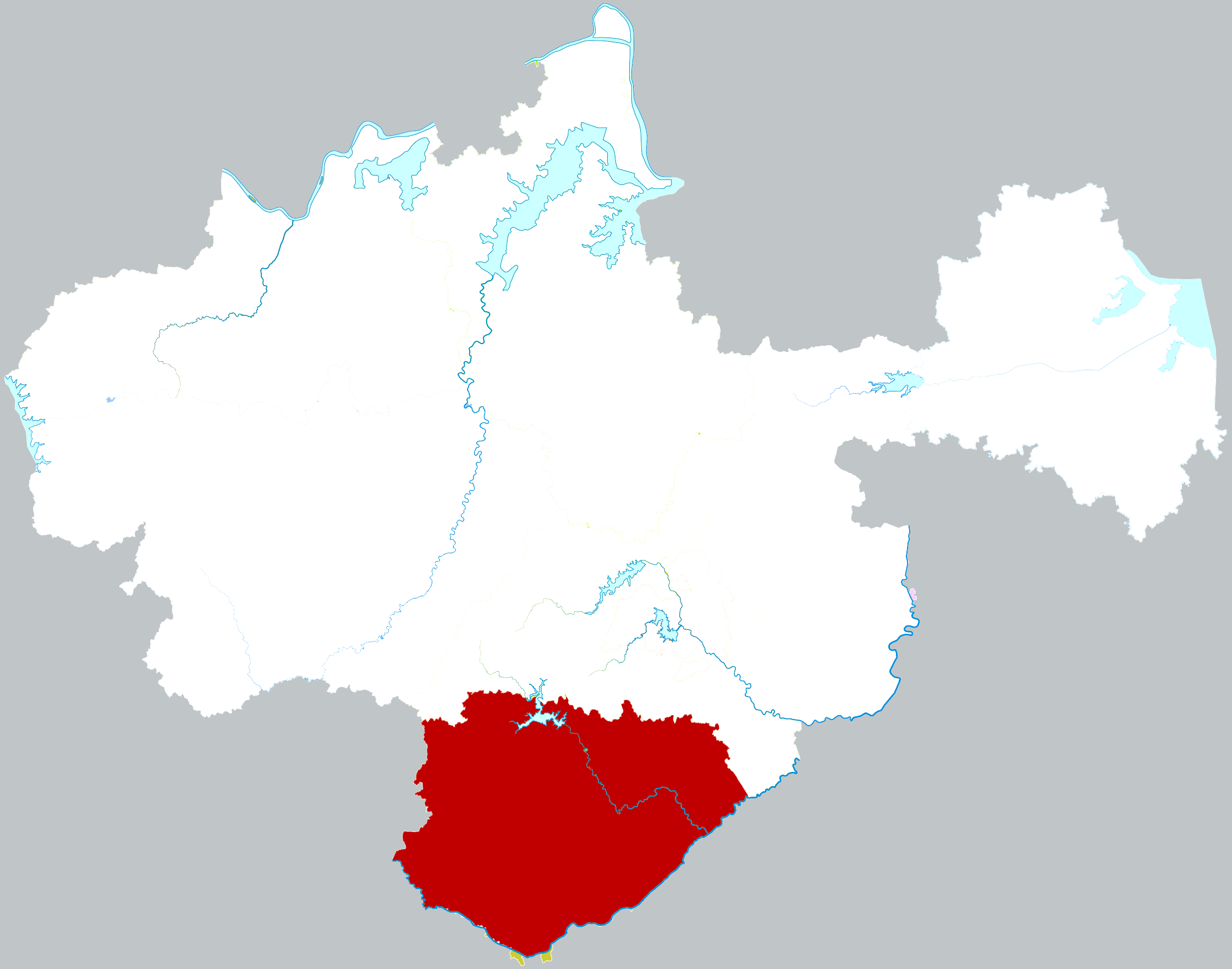 Location of Quanjiao county in Chuzhou city, China